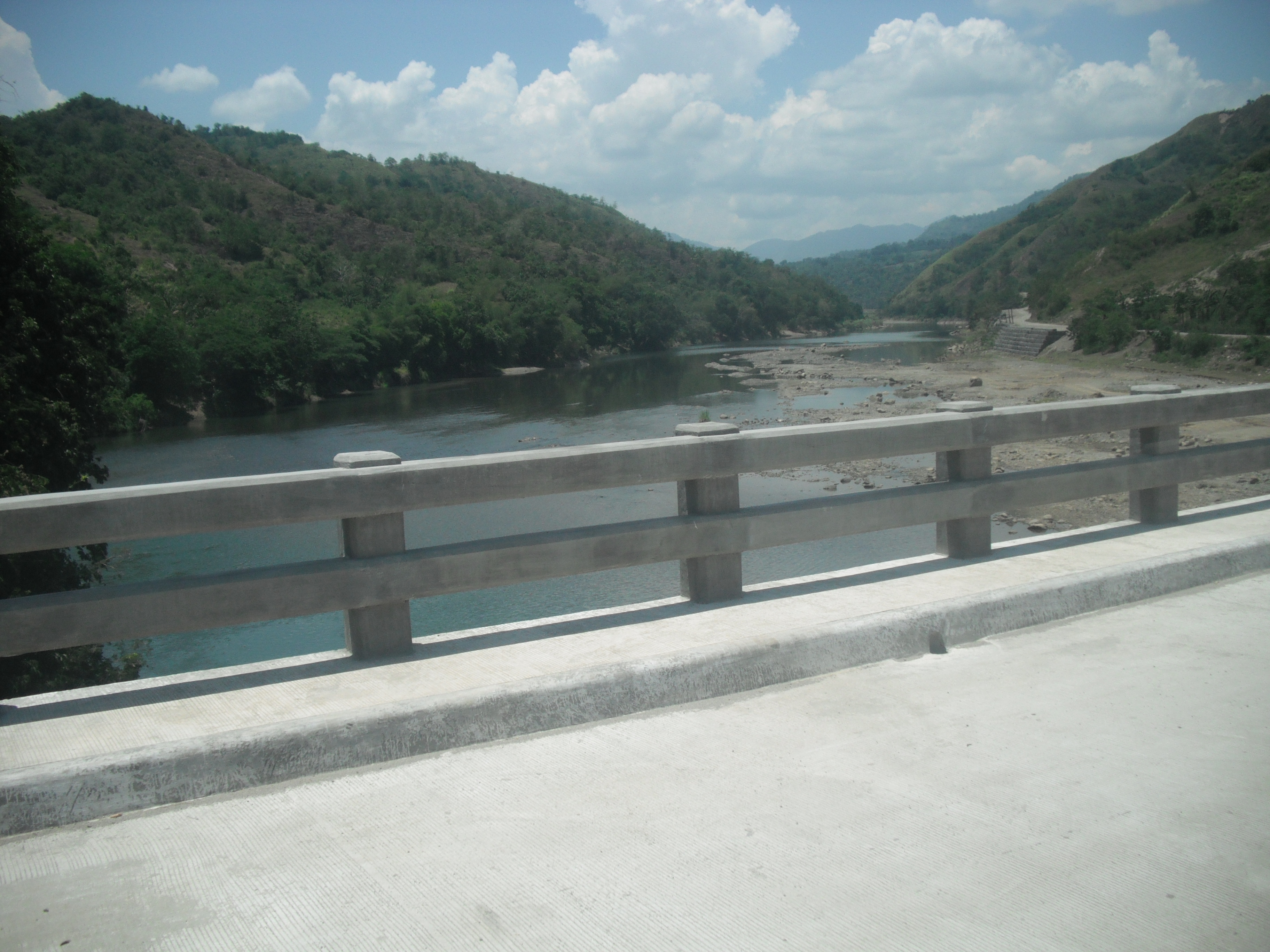 This site is the most famous in the town alongside the majestic Matalag River